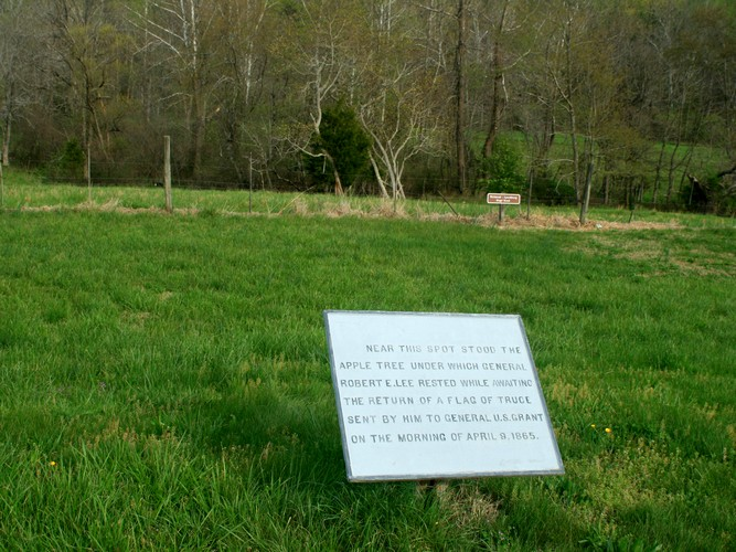 Appomattox, site of apple tree or "Surrender tree"